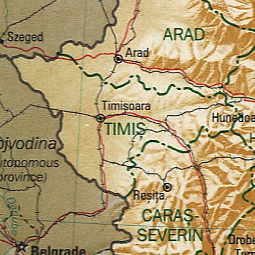 Map of Timiș County, Romania.